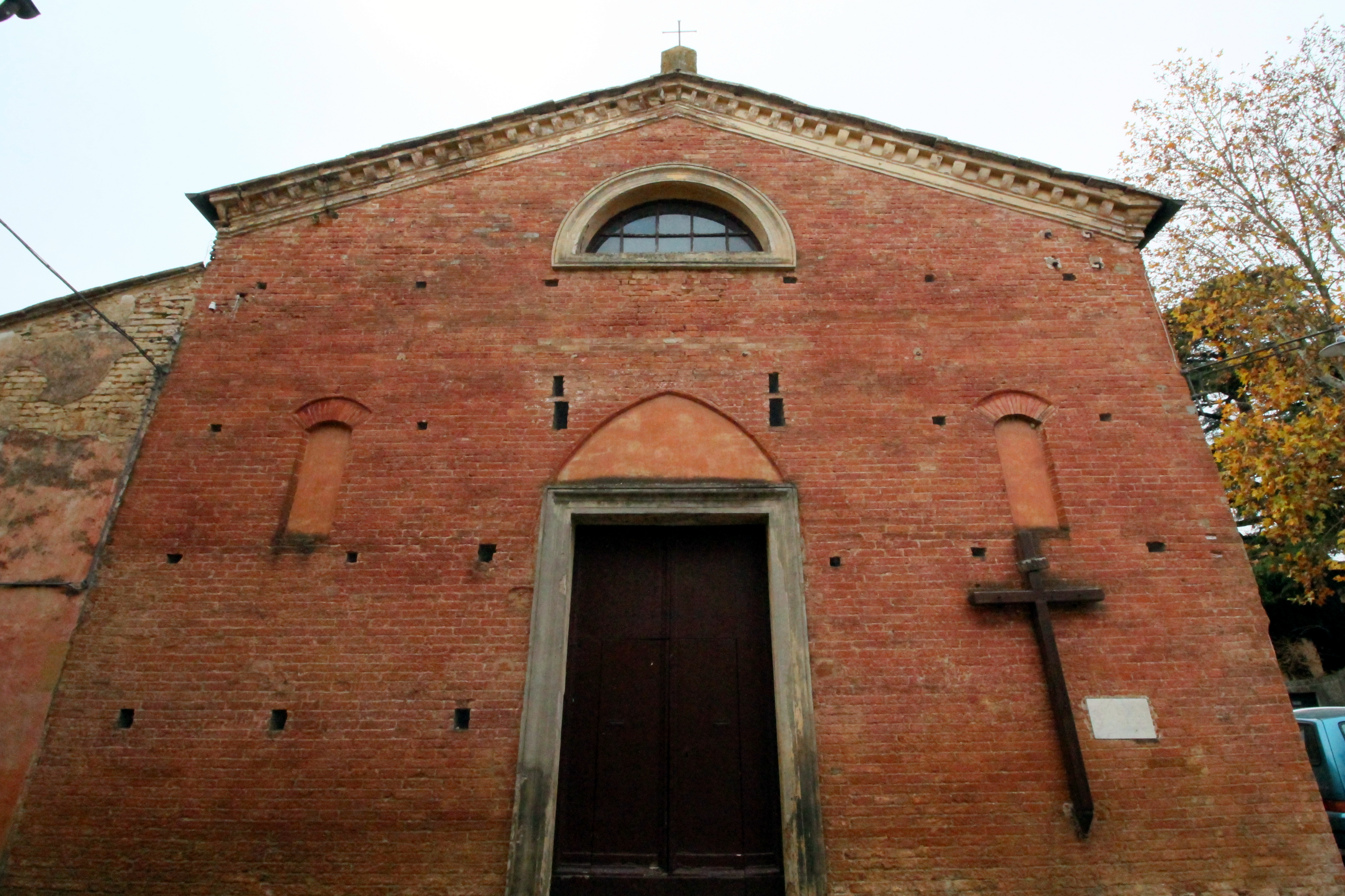 Church San Lorenzo a Sprenna in Serravalle, in Serravalle, village of Buonconvento, Province of Siena, Tuscany, Italy